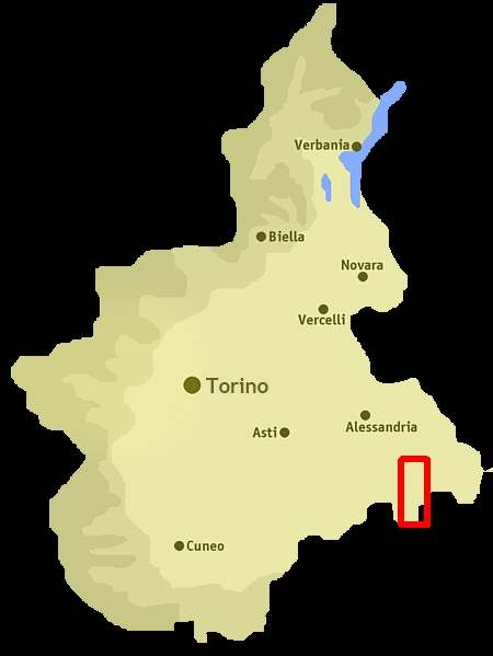 Lemme valley location within Piedmont (NW Italy)